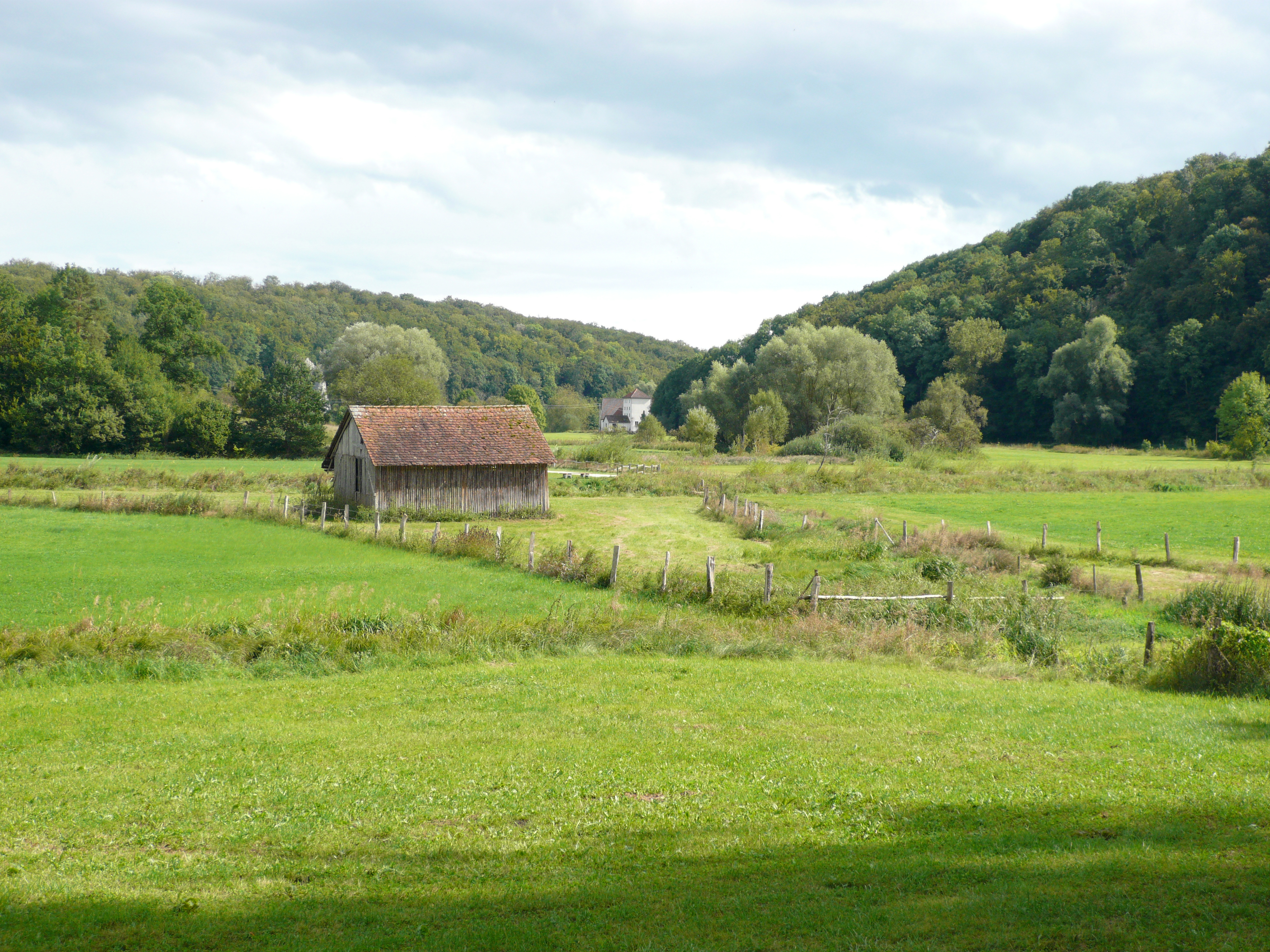 In Eselsburger Tal